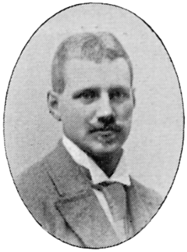 Image scanned from the book "Svenskt Porträttgalleri XX - Arkitekter, Bildhuggare, Målare m.fl. " ("Swedish Portrait Gallery XX - Architects, Sculptors, Painters, ") published 1901